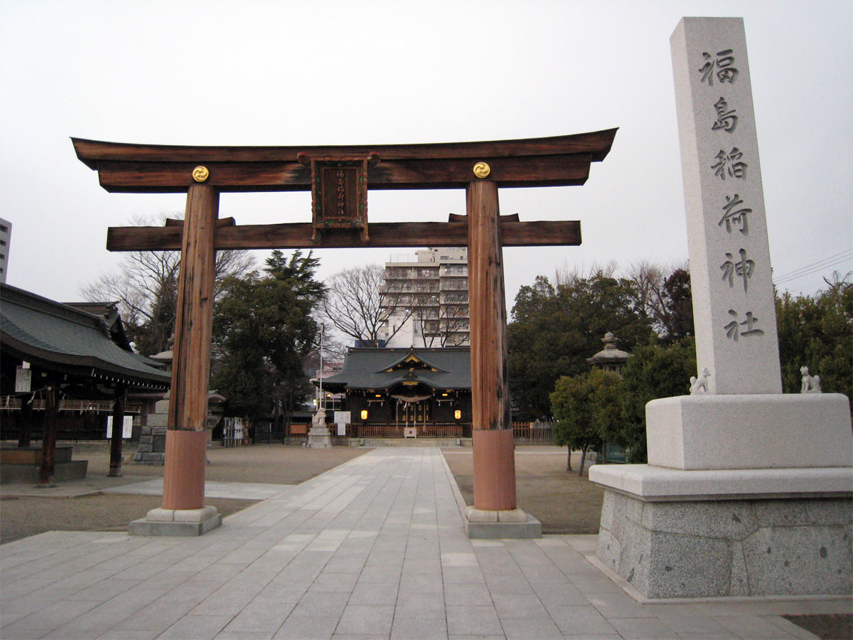 Fukushima Inari-jinja. Photo by Fk.